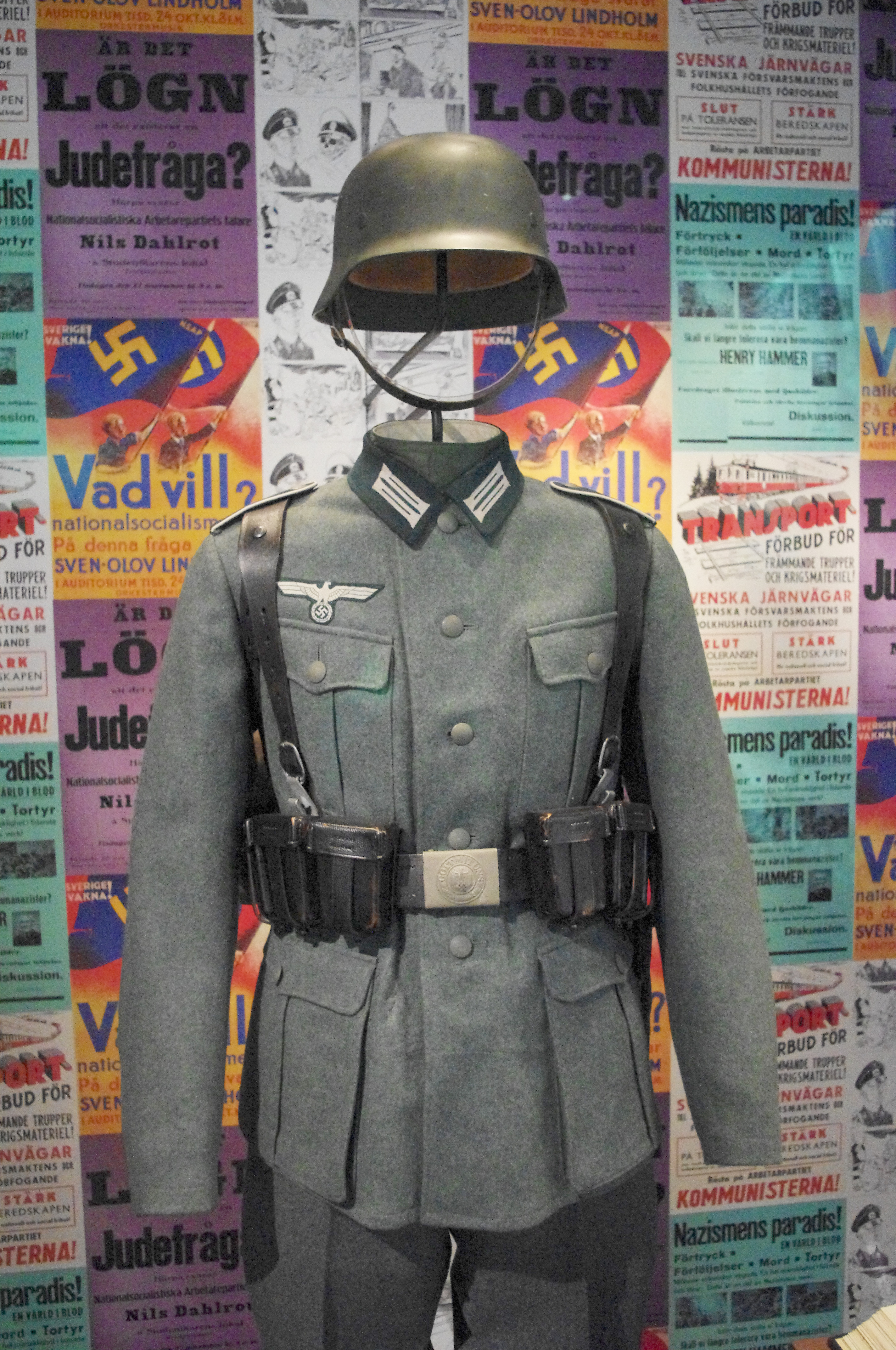 German army uniform model 1936 for a private in the Wehrmacht, the armed forces of Nazi Germany. Feldblouse, Stahlhelm, Mauser K98 ammunition pouches, etc. This Army uniform was a gift to the Army Museum in Stockholm on August 3, 1939. The wall behind the mannequin is decorated with copies of old Communist and Nazi posters of Sweden: Är det lögn? (...) Judefråga (...) Nils Dahlrot; Vad vill nationalsocialismen? (...) Sven-Olov Lindholm; Editorial cartoon by Elias Blix/Stig höök; etc.